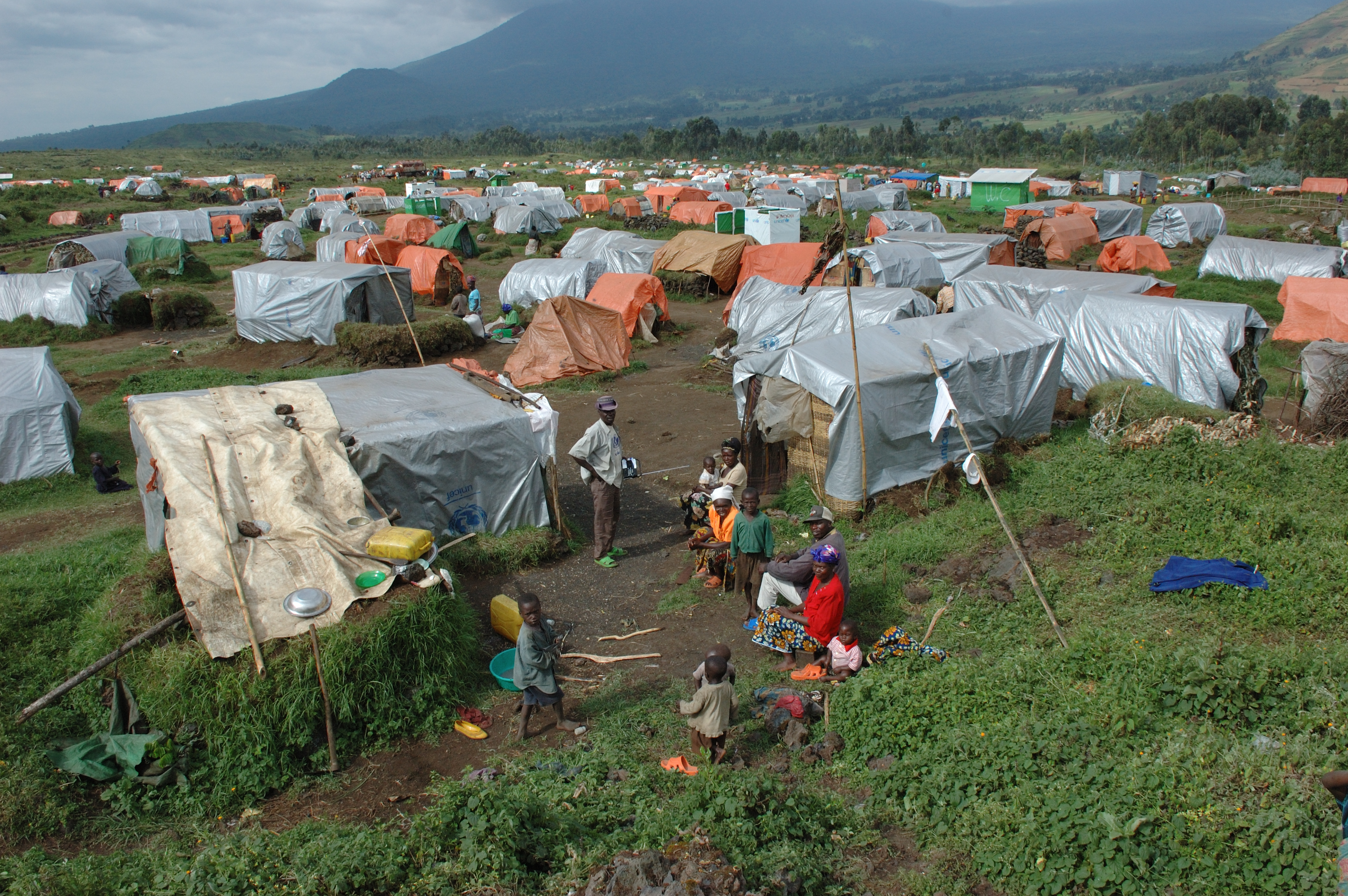 Kibumba is a displaced persons camp about forty minutes north of Goma, close to the border with Rwanda. It is built upon the ruins of the camps for Rwandan refugees. The population comes from Rugare about 10km away and as far as Tongo about 40km away. It is managed by the displaced themselves and the UN and NGOs provides services in the camp in agreement with the Committee of the Displaced. UNICEF with NGO partners is running an area for children to play and where we can listen out for any problems children might be having, we are supporting emergency schooling, water points, latrines and psychosocial as well as medical support for rape survivors.